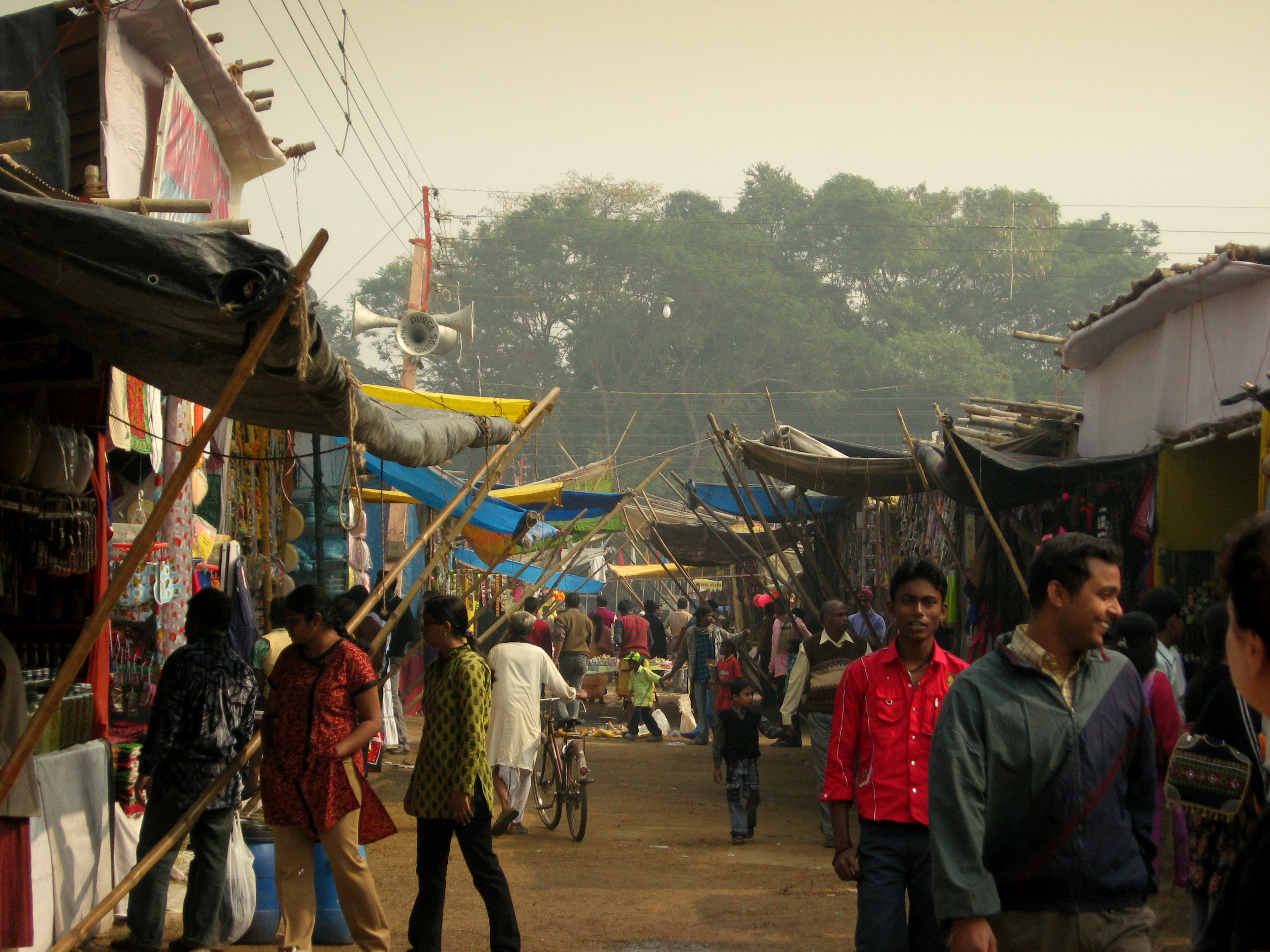 Santiniketan's Annual Poush Mela